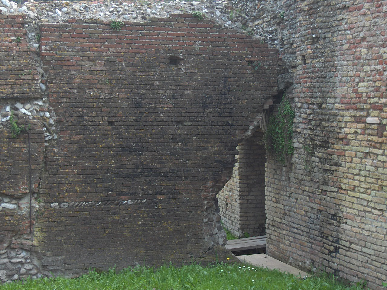 Remains of the Roman amphitheatre of Rimini, Italy